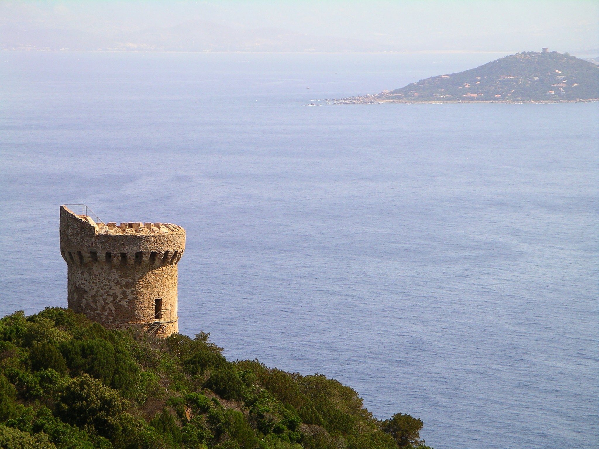 The Tour de Capu di Muru is a Genoese tower in the commune of Coti-Chiavari on the French island of Corsica. The Tour de la Castagna sits on the next headland and beyond that is the Golfe d'Ajaccio.